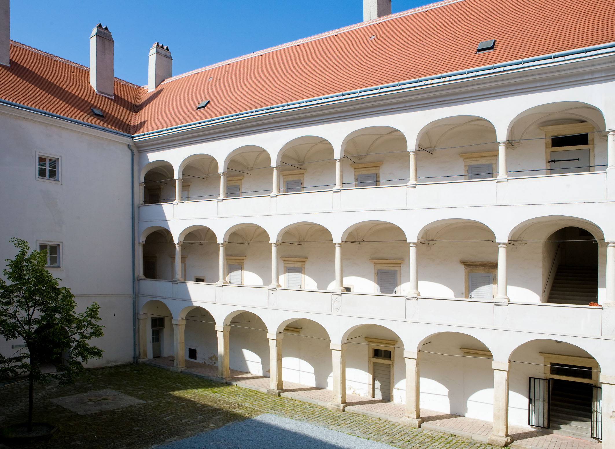 the renaissance-arcaded sidewalk in the court of the "Kunsthaus Horn"